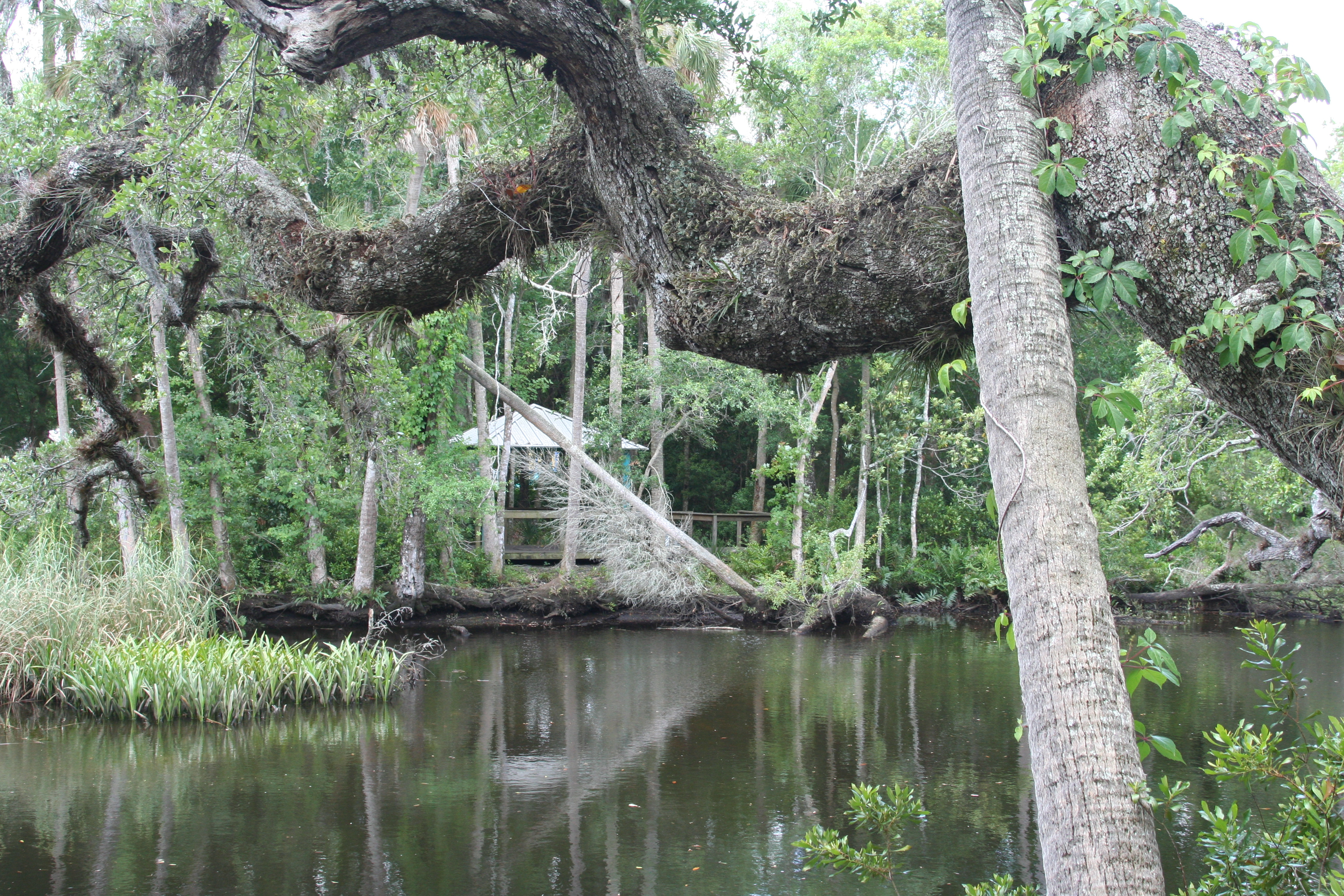 View in James E. Grey Preserve, April 2012.